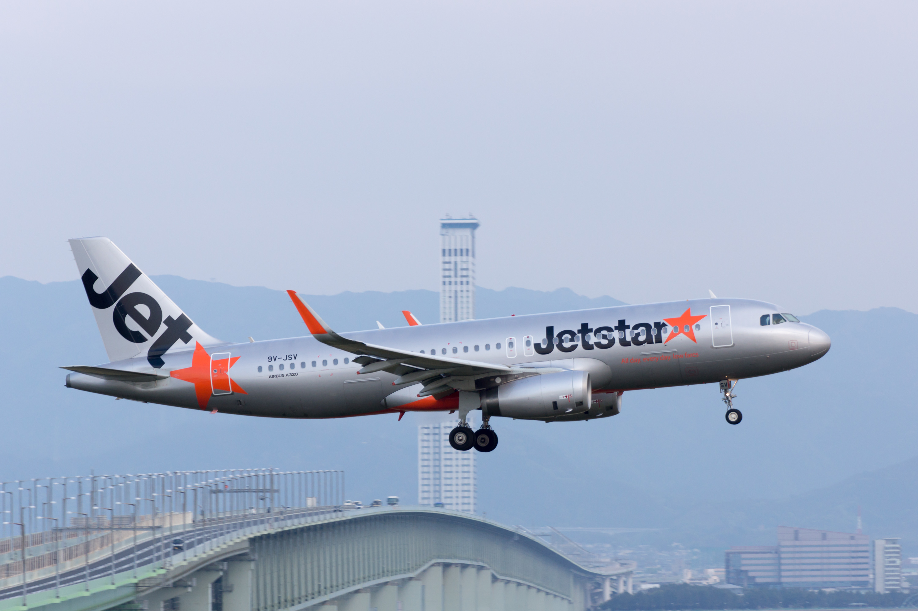 Jetstar Asia Airways Airbus A320-232